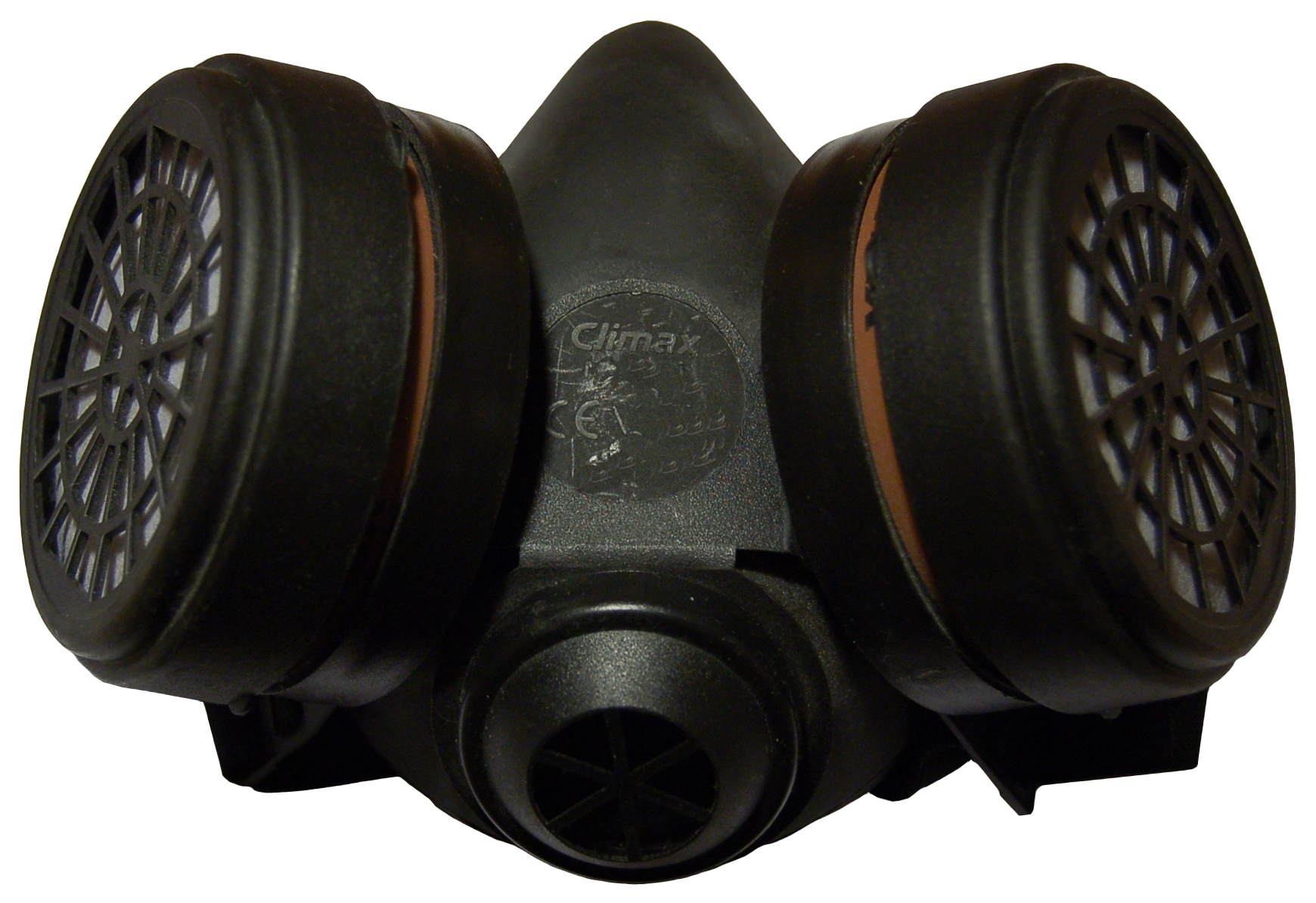 Gas mask